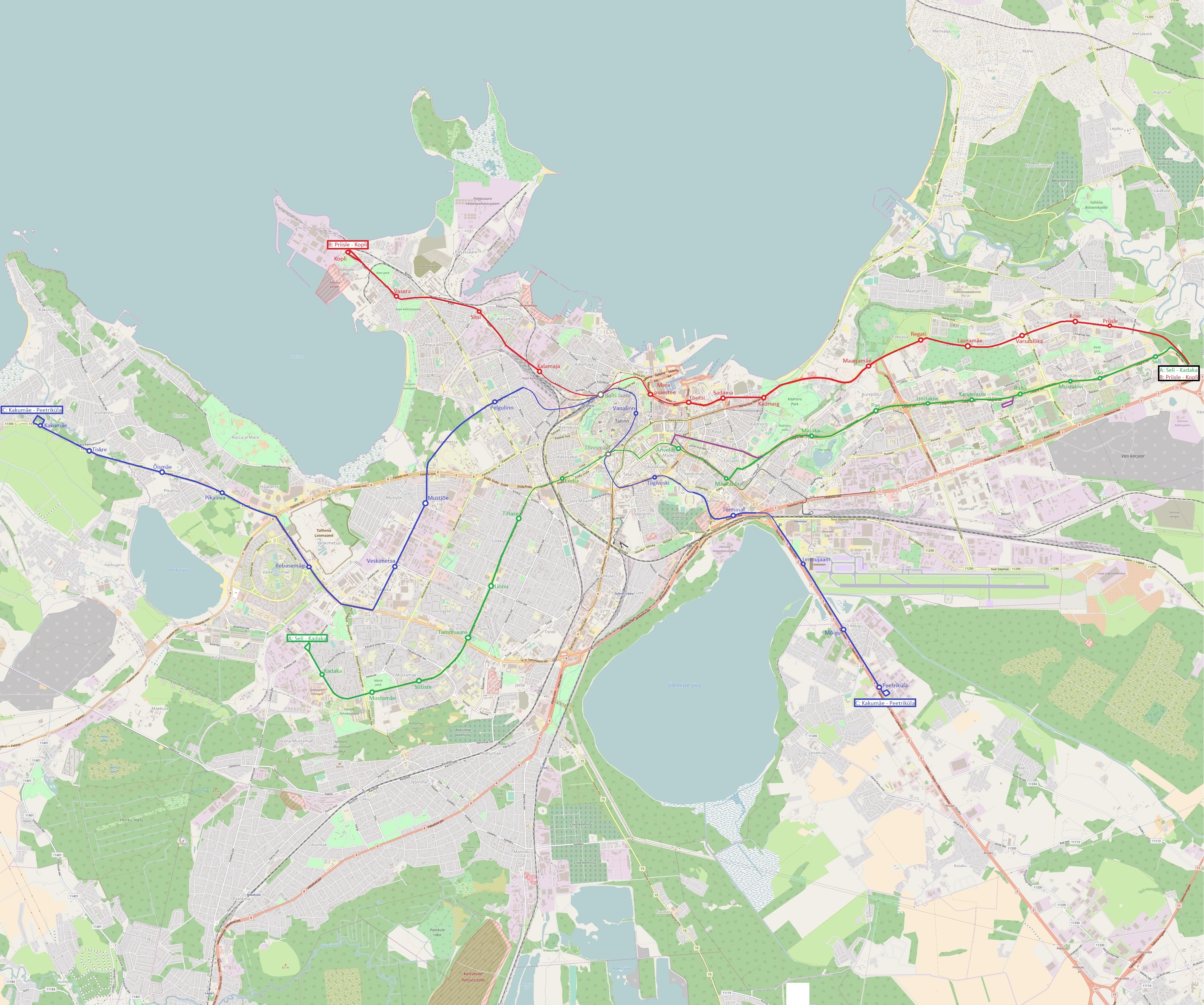 Tram routes of Tallinn planned in 1982. Plan wasn't realised because of USSR collapse.